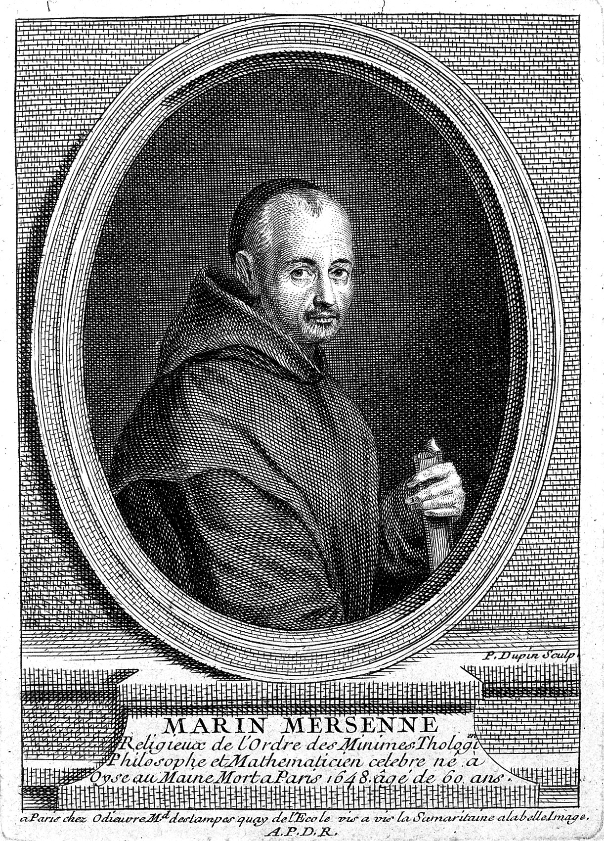 Marin Mersenne. Line engraving by P. Dupin, 1765. Iconographic Collections Keywords: Marin Mersenne